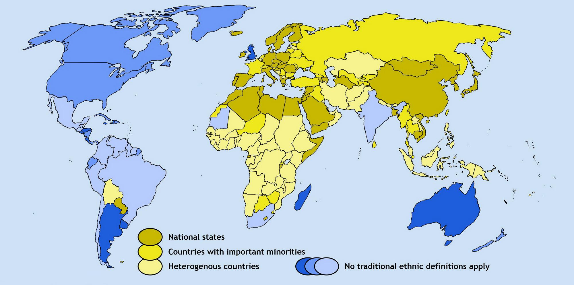 The largest ethnic group or race as percent of total population. Dark yellow: 85% or more are from majority ethnicity Yellow: 65%-84% are from majority ethnicity Light yellow: 64% or fewer are from majority ethnicity Dark blue: 85% or more are from majority race Blue: 65%-84% are from majority race Light blue: 64% or fewer are from majority race Source: CIA World Factbook: Ethnic groups) Data as of 2000-2008.